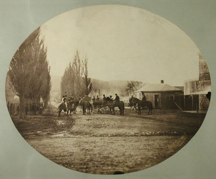 Photograph, Montreal Hunt Club at Mile End Road, Montreal, QC, 1859, Silver salts on paper mounted on card - Albumen process - 27.9 x 35.6 cm